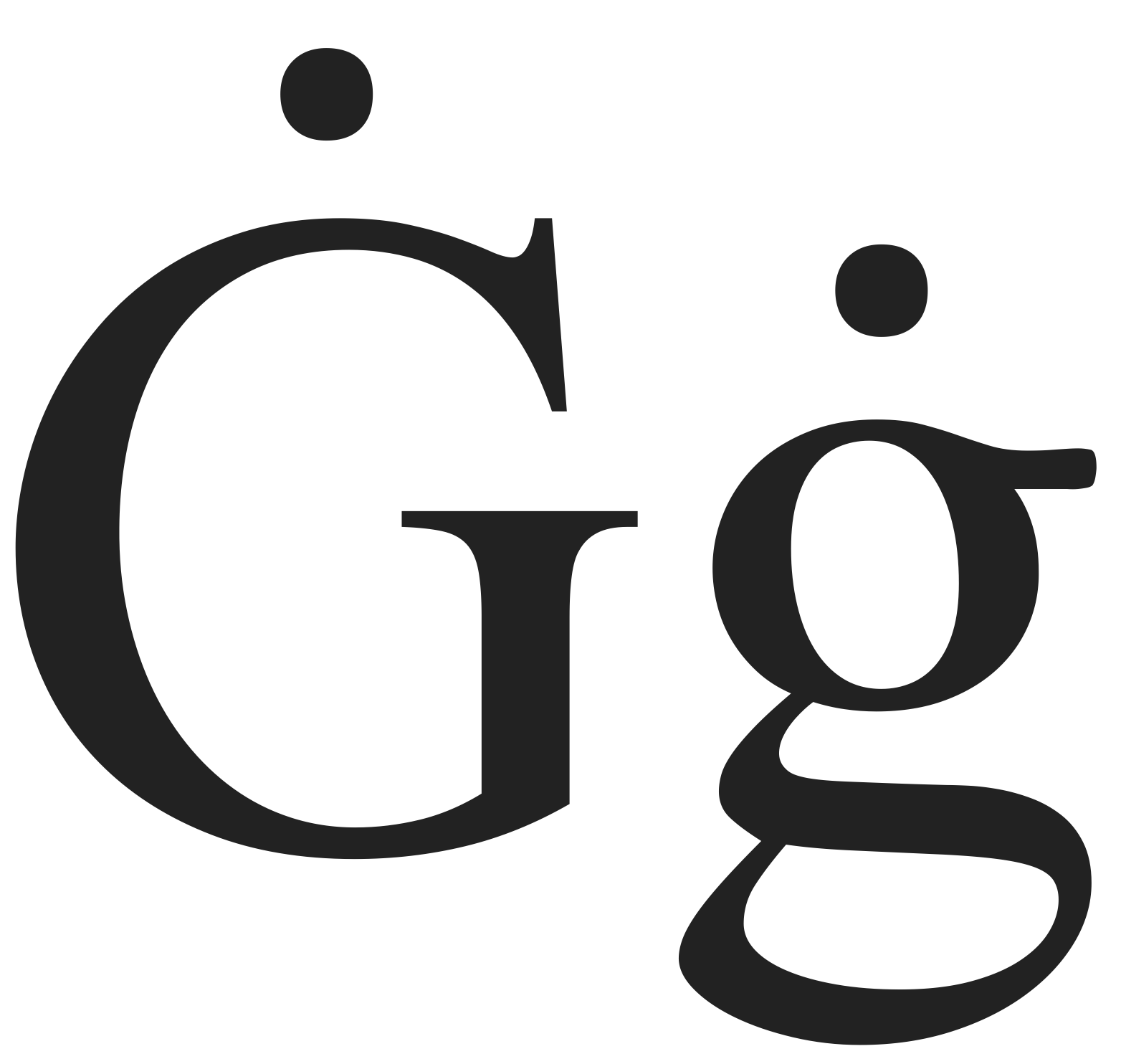 Doulos SIL glyphs for majuscule and minuscule ġ.